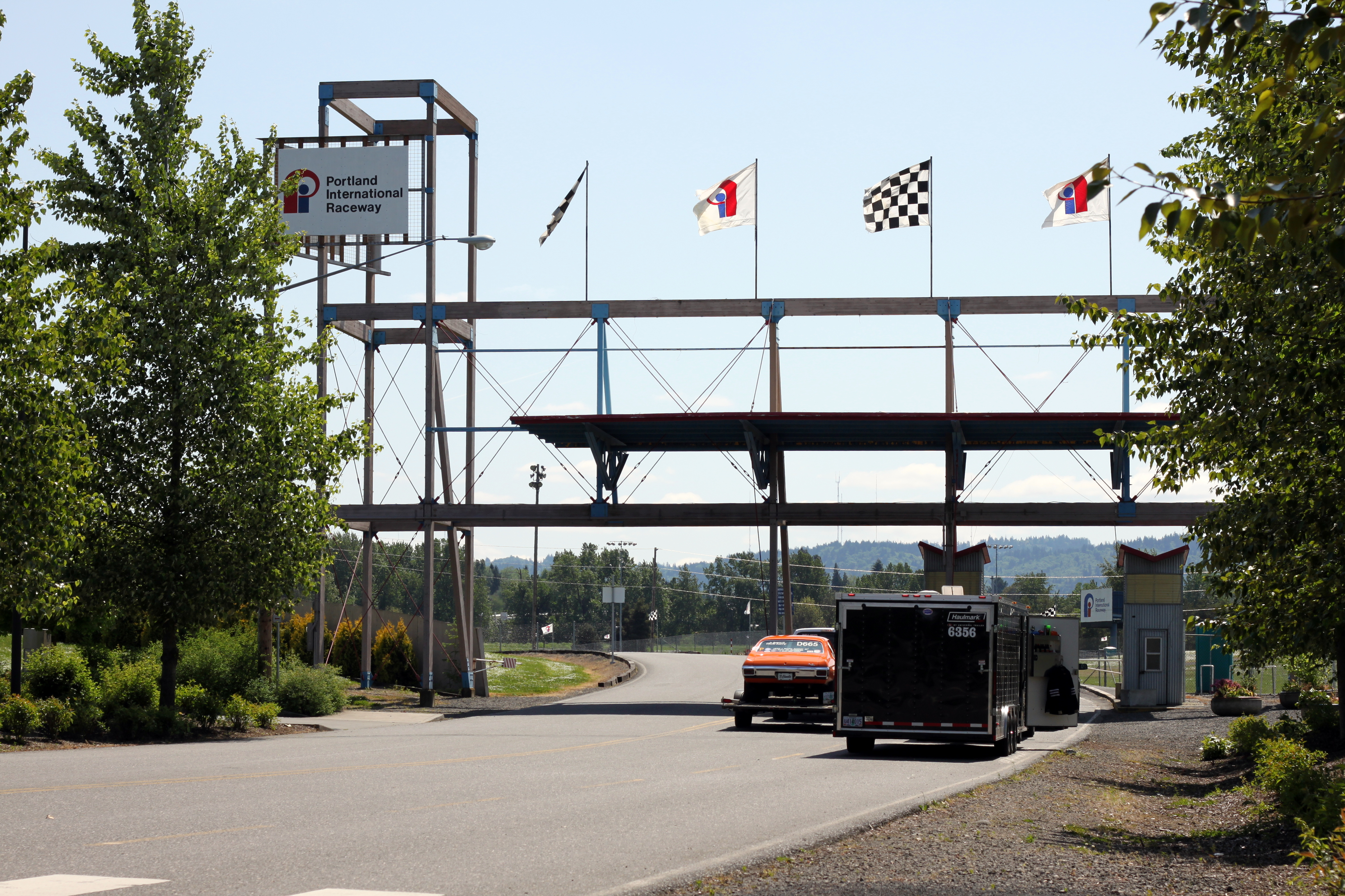 Entrance to the Portland International Raceway near Portland, Oregon, on the former site of Vanport, Oregon. Photo by author from public property.